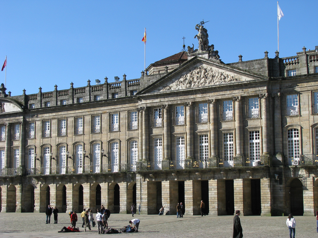 Pazo de Raxoi en la Plaza del Obradoiro, Santiago de Compostela.